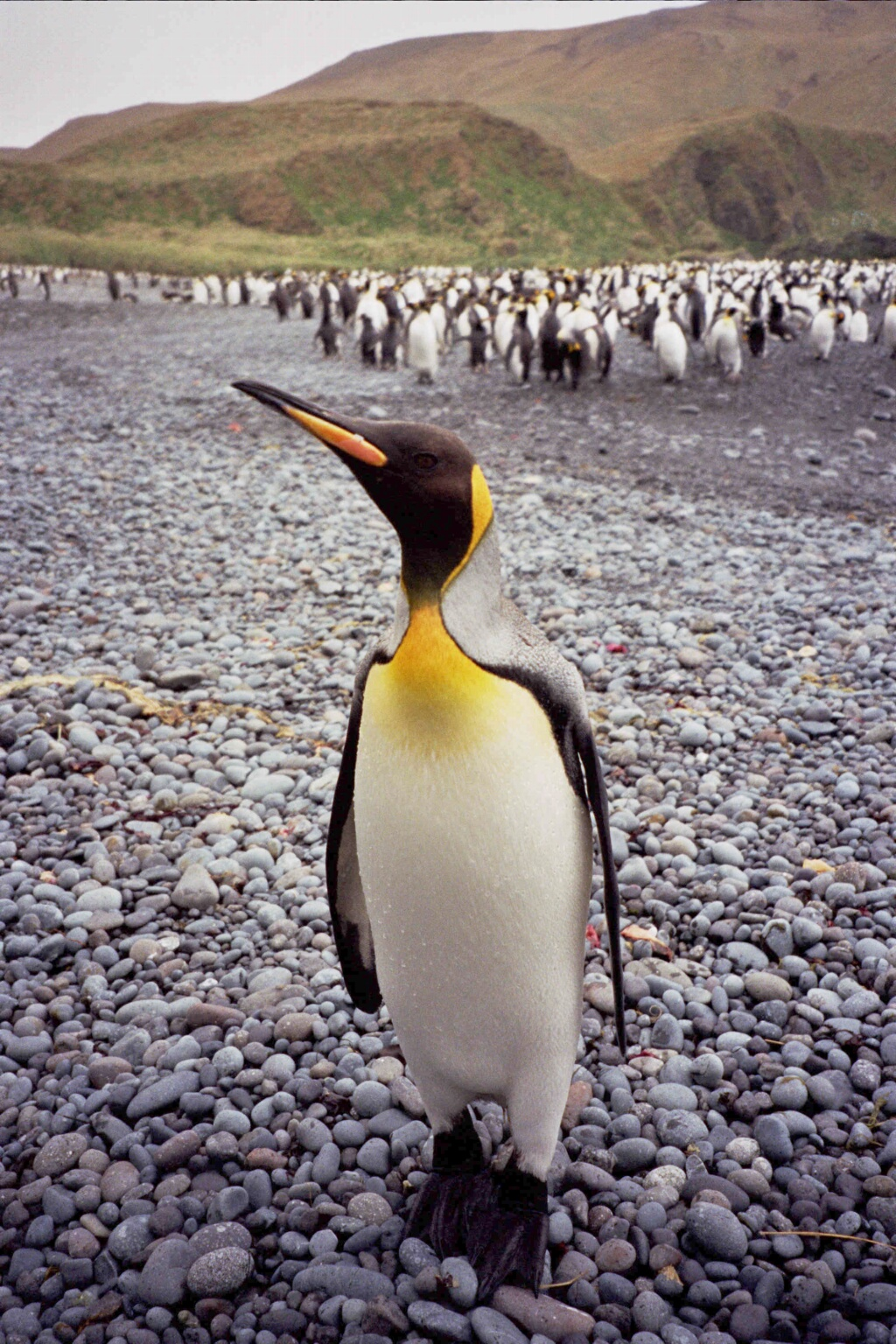 King Penguin at Green Gorge